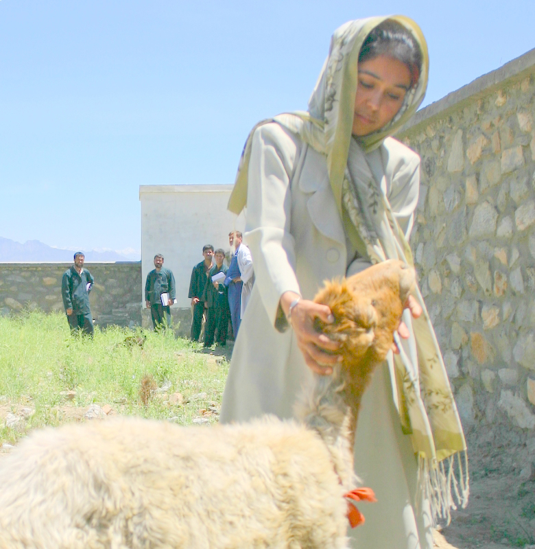 Fareba Miriam examines a domestic sheep. Photo taken in Charikar, Parwan, Afghanistan. In March 2006, Fareba Miriam became the first woman to enroll in a para-veterinarian training program that USAID is running in Afghanistan. She learned about the training opportunity while teaching geography at a high school in Feyzabad, Badakshan, a northern province of Afghanistan. Fareba is 26, the eldest daughter in a family of 12. Although her family does not raise livestock, many members of her community are dependent on healthy herds and flocks to maintain their livelihoods. Keywords: afghanistan agriculture livestock.